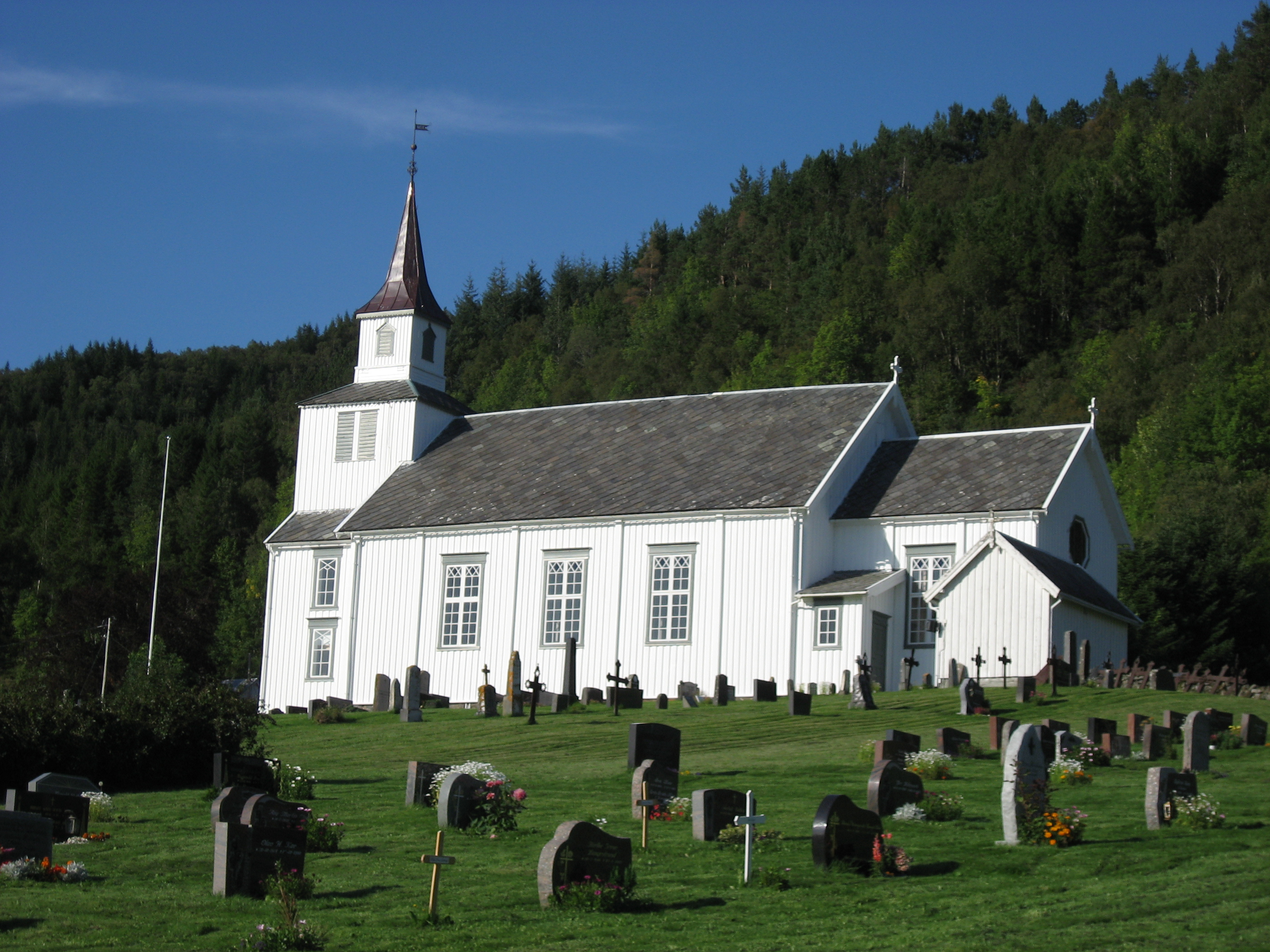 Kornstad church in Averøy, Norway. Built 1871.